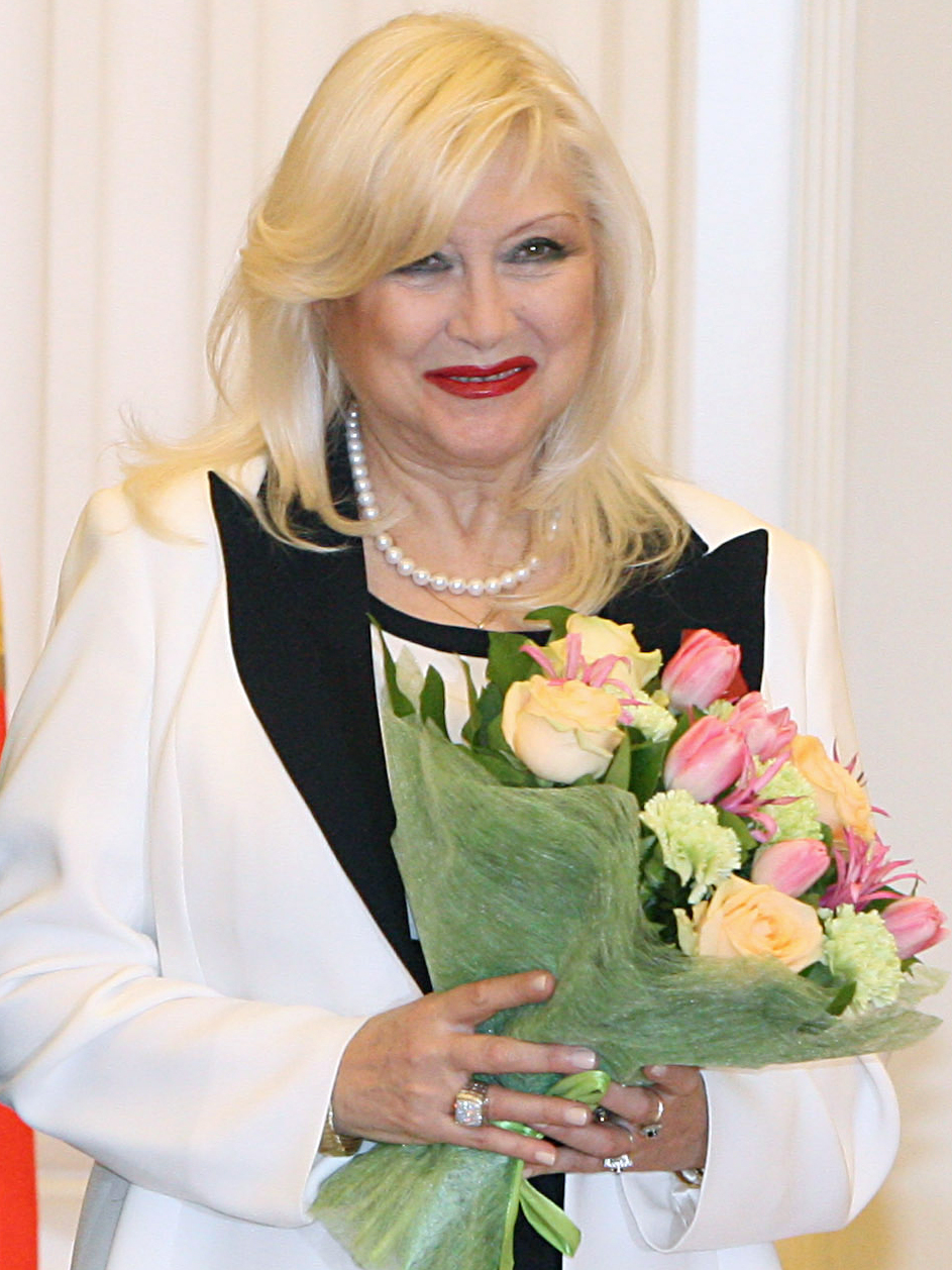 THE KREMLIN, MOSCOW. Ceremony presenting state decorations. Theatre and cinema actress Irina Miroshnichenko received the Order for Services to the Fatherland IV class.